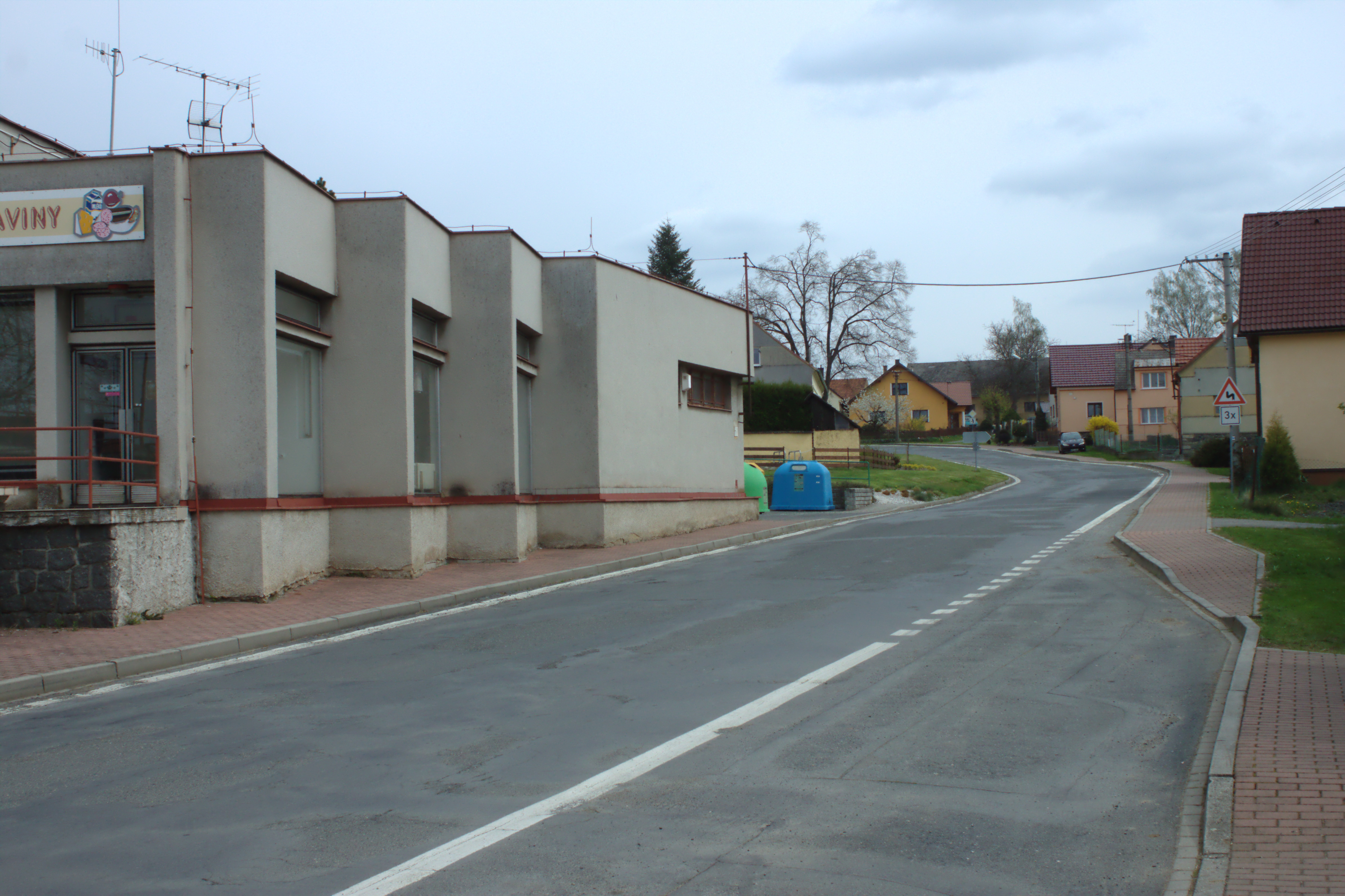 Main road with a shop in Hradiště, Plzeň Region, CZ